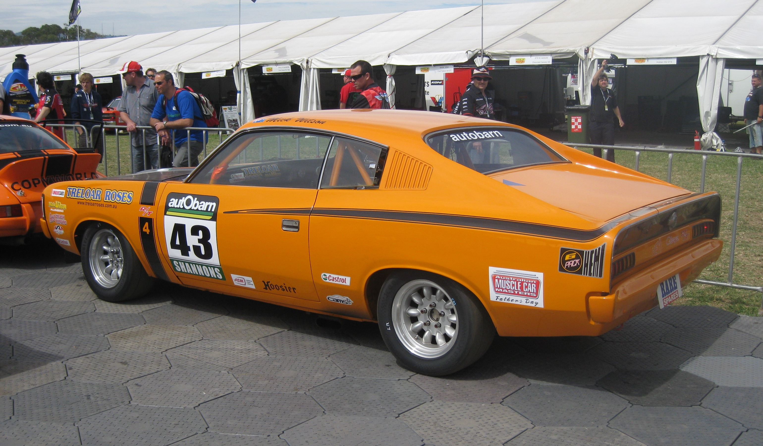 The Chrysler VH Valiant Charger R/T of Mick Wilson at the Adelaide Parklands Circuit for the opening round of the 2011 Touring Car Masters